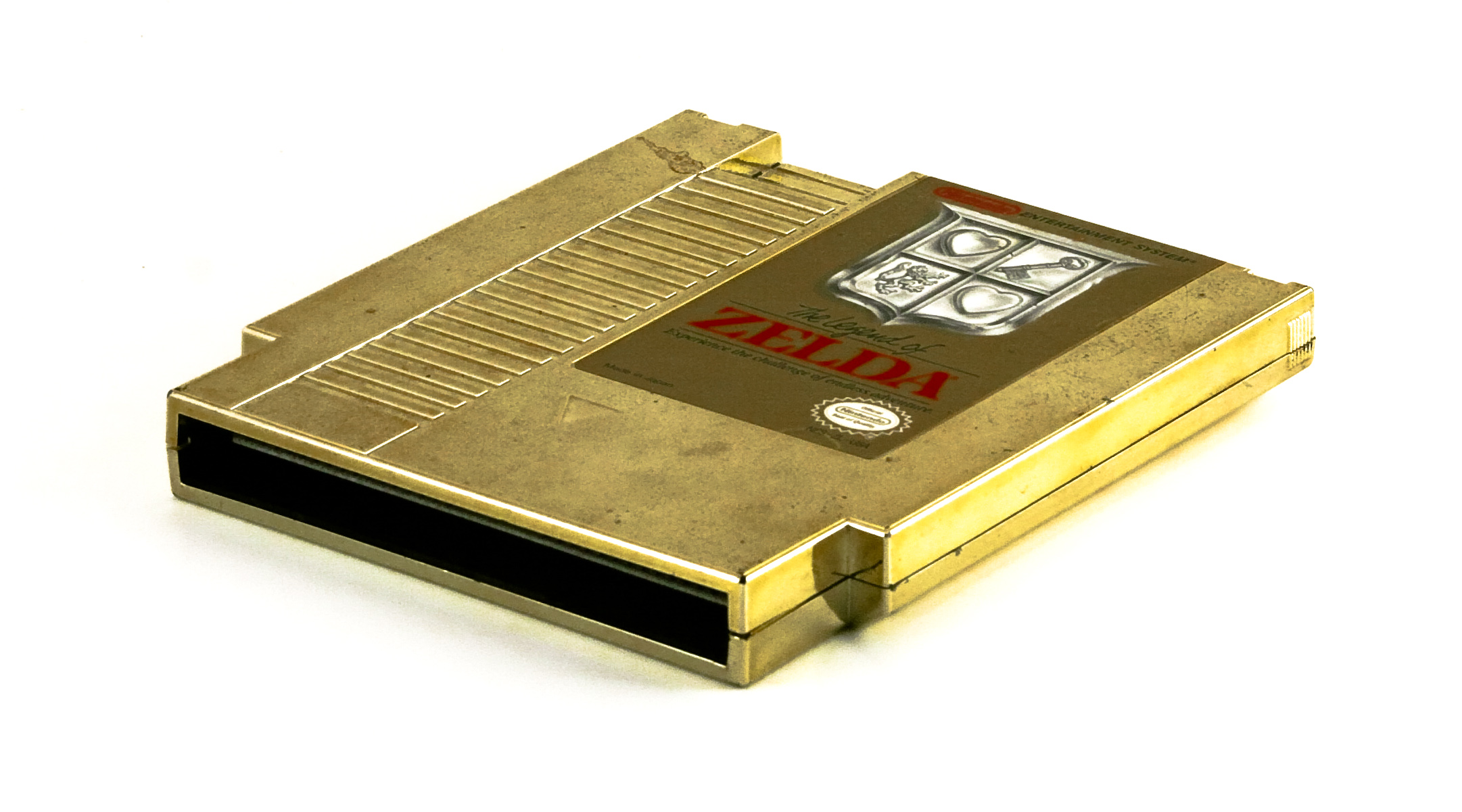 Golden "The Legend of Zelda" NES cartridge. Light box with Vivitar 285-HV 1/4 from the right.